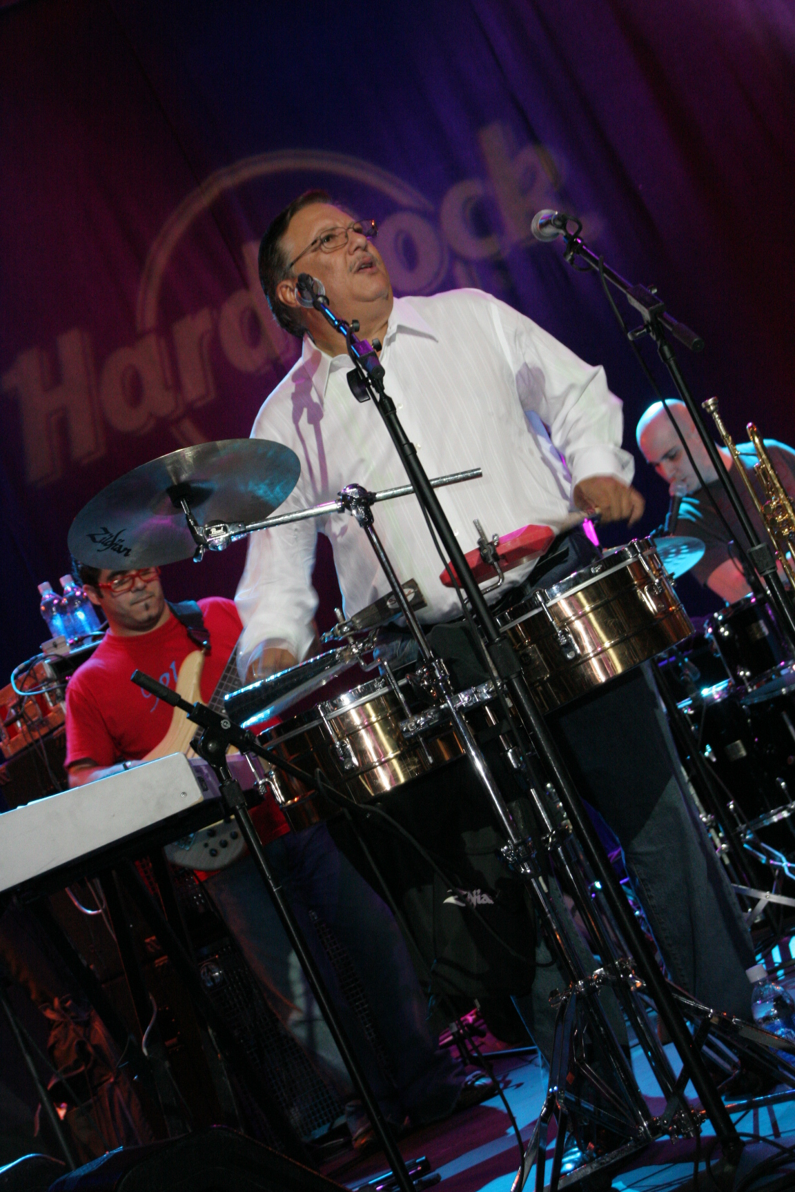 Arturo Sandoval plays the timbales at the Hard Rock Cafe in Times Square.